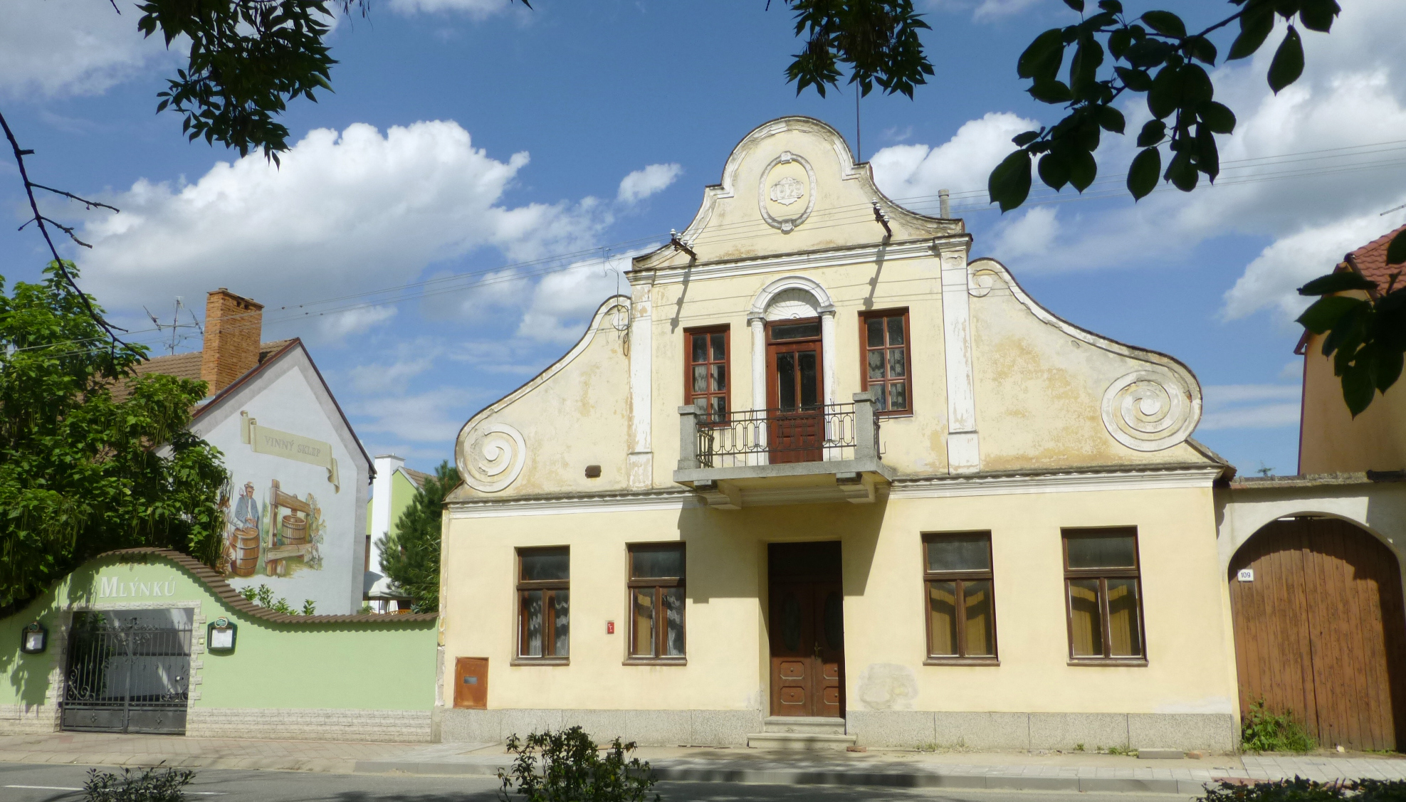 Baroque gable in Dolní Dunajovice, bearing date 1929.